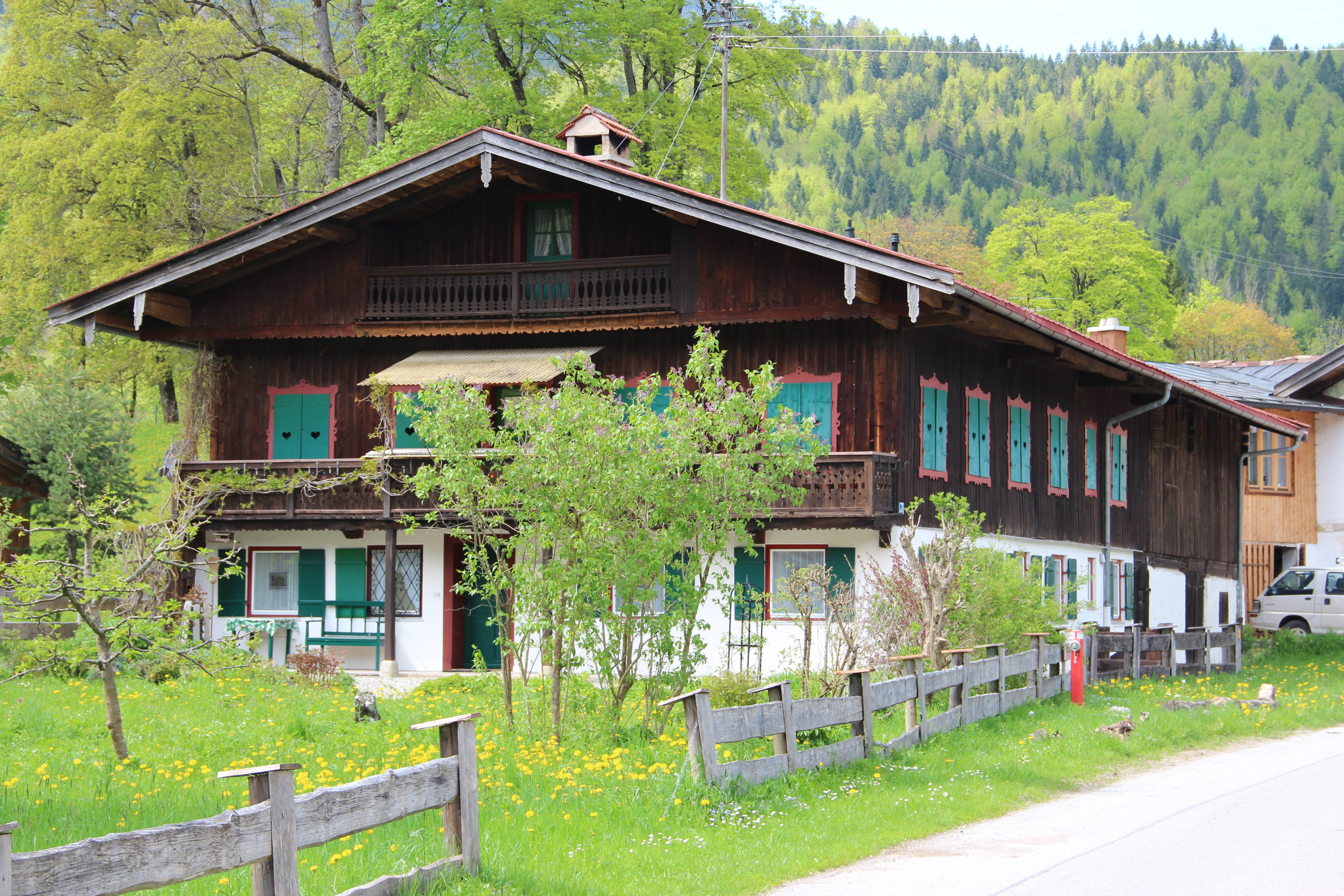 Beim Thoma. Enterfels, Felserweg 7, Kreuth, Germany. Listed monument.